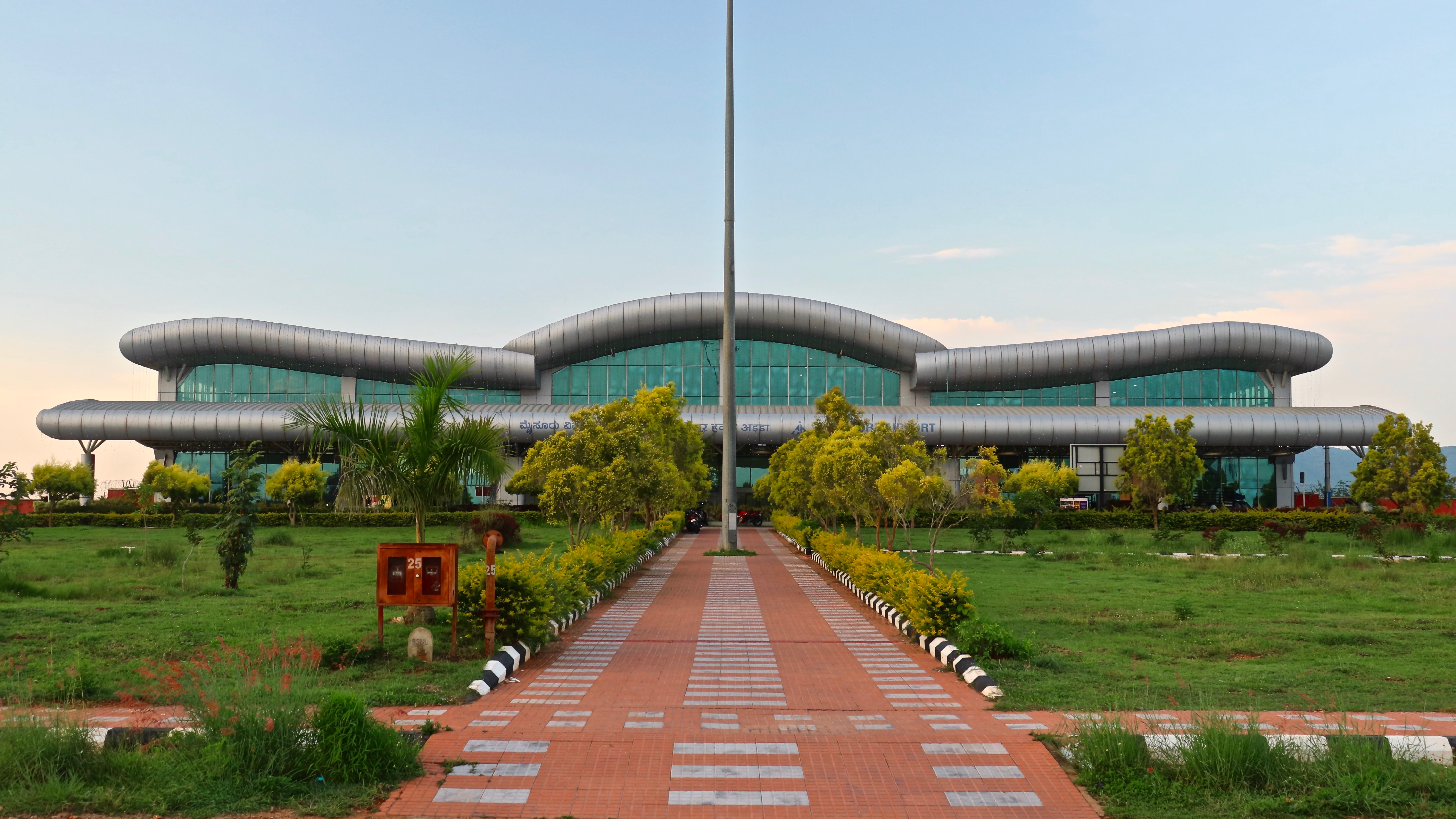 Mysore Airport is an airport serving Mysore, a city in the Indian state of Karnataka. It is located near the village of Mandakalli, 10 kilometres (6.2 mi) south of the city, and is owned and operated by the Airports Authority of India (AAI). As of 2019, the airport had occasional flights to Chennai.